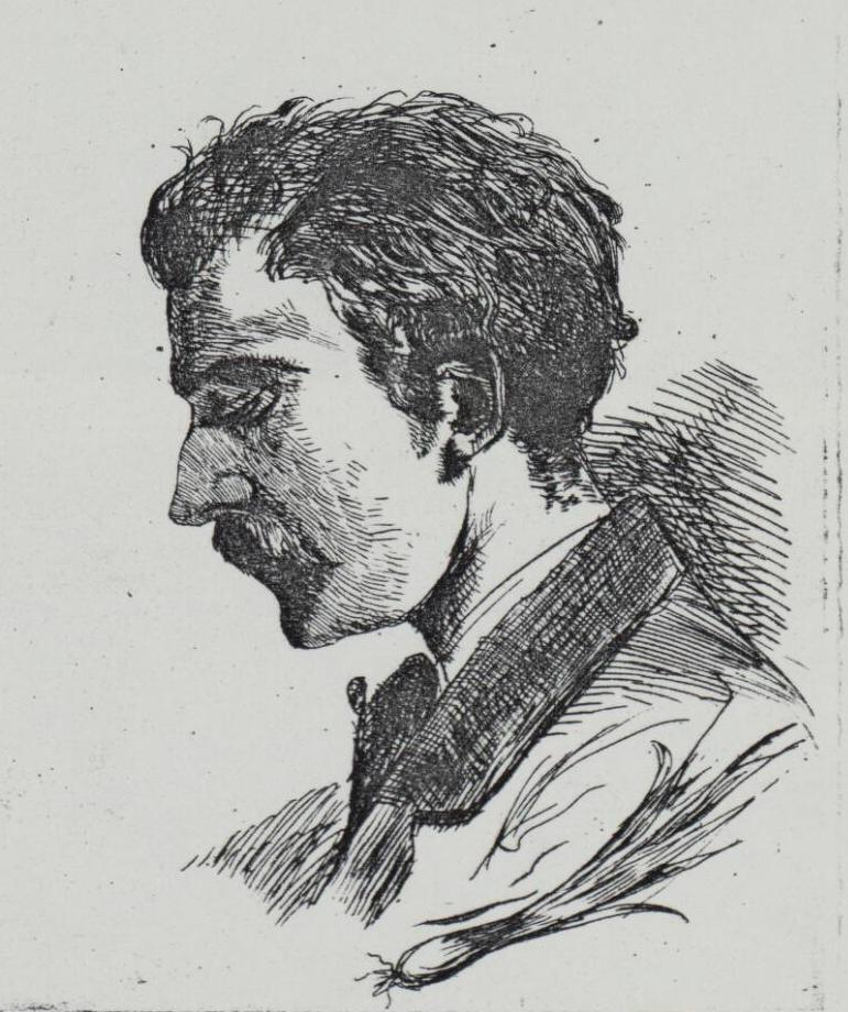 A portrait from the Welsh Portrait Collection at the National Library of Wales. Depicted person: John Griffiths – British artist, born 1837